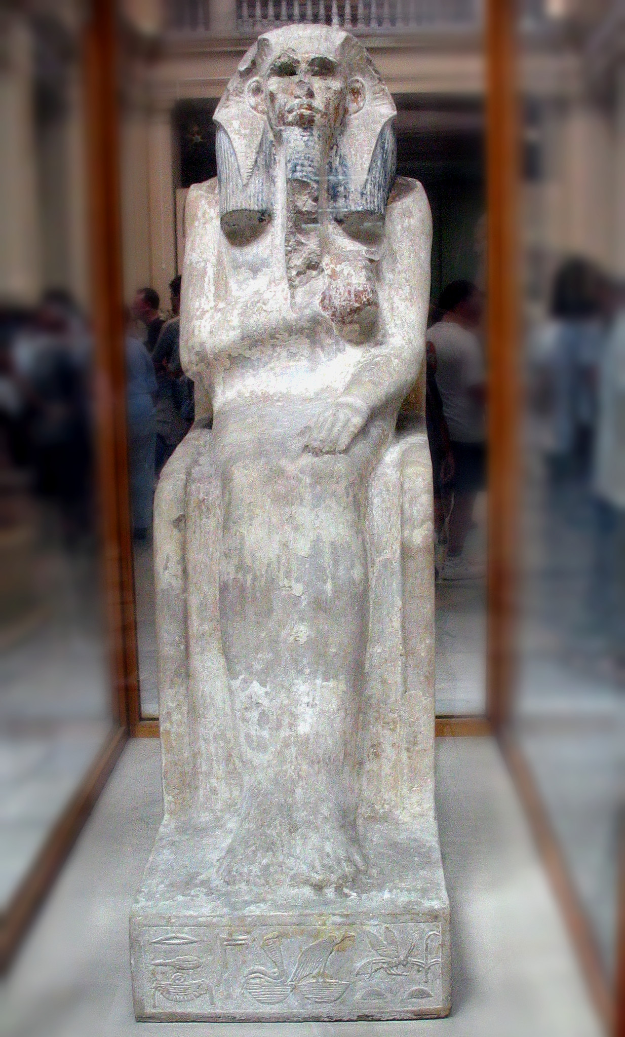 Djoser statue. Step pyramid complex of Djoser. Cairo Egyptian Museum.